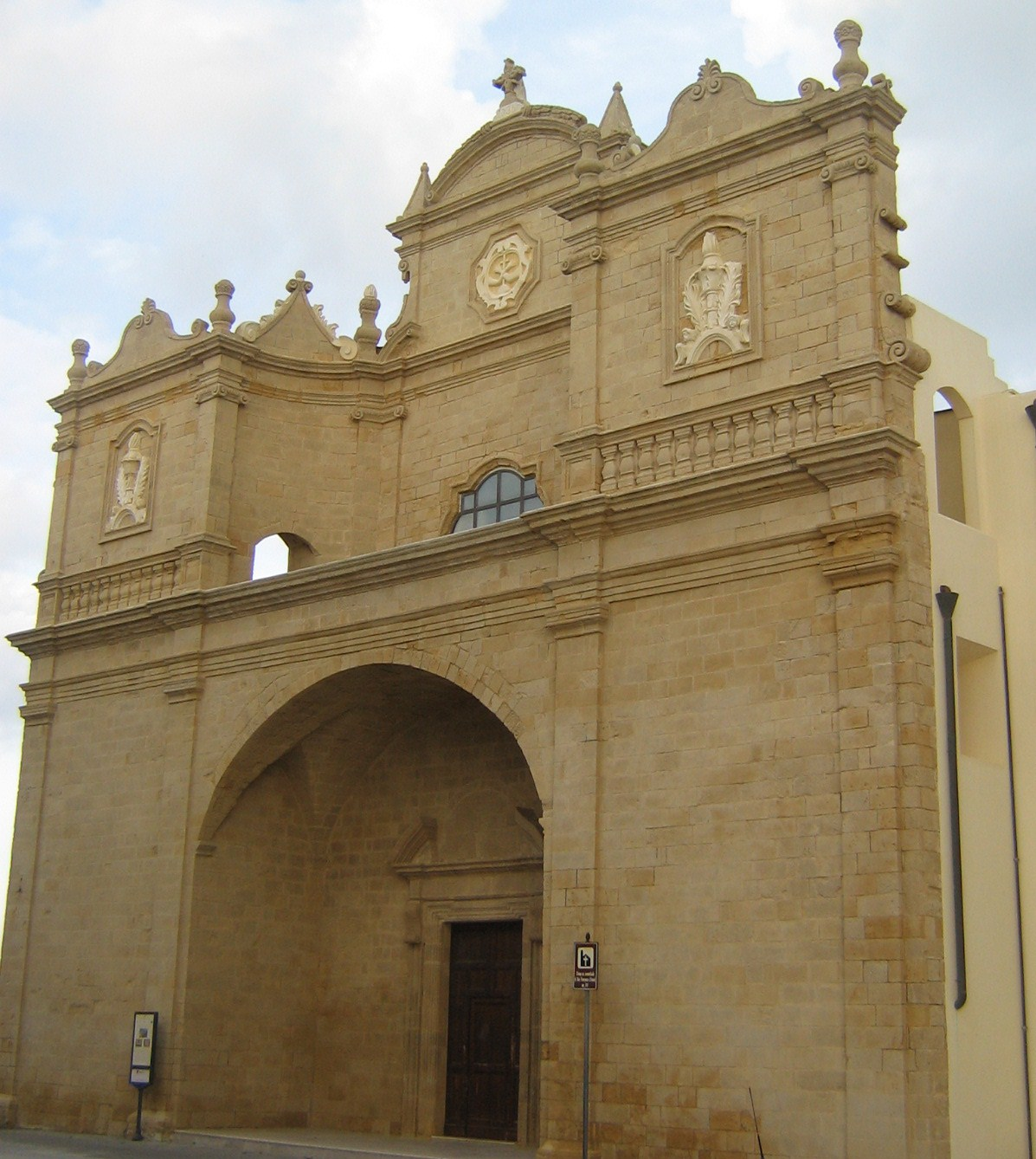 Chiesa di San Francesco d'Assisi Gallipoli